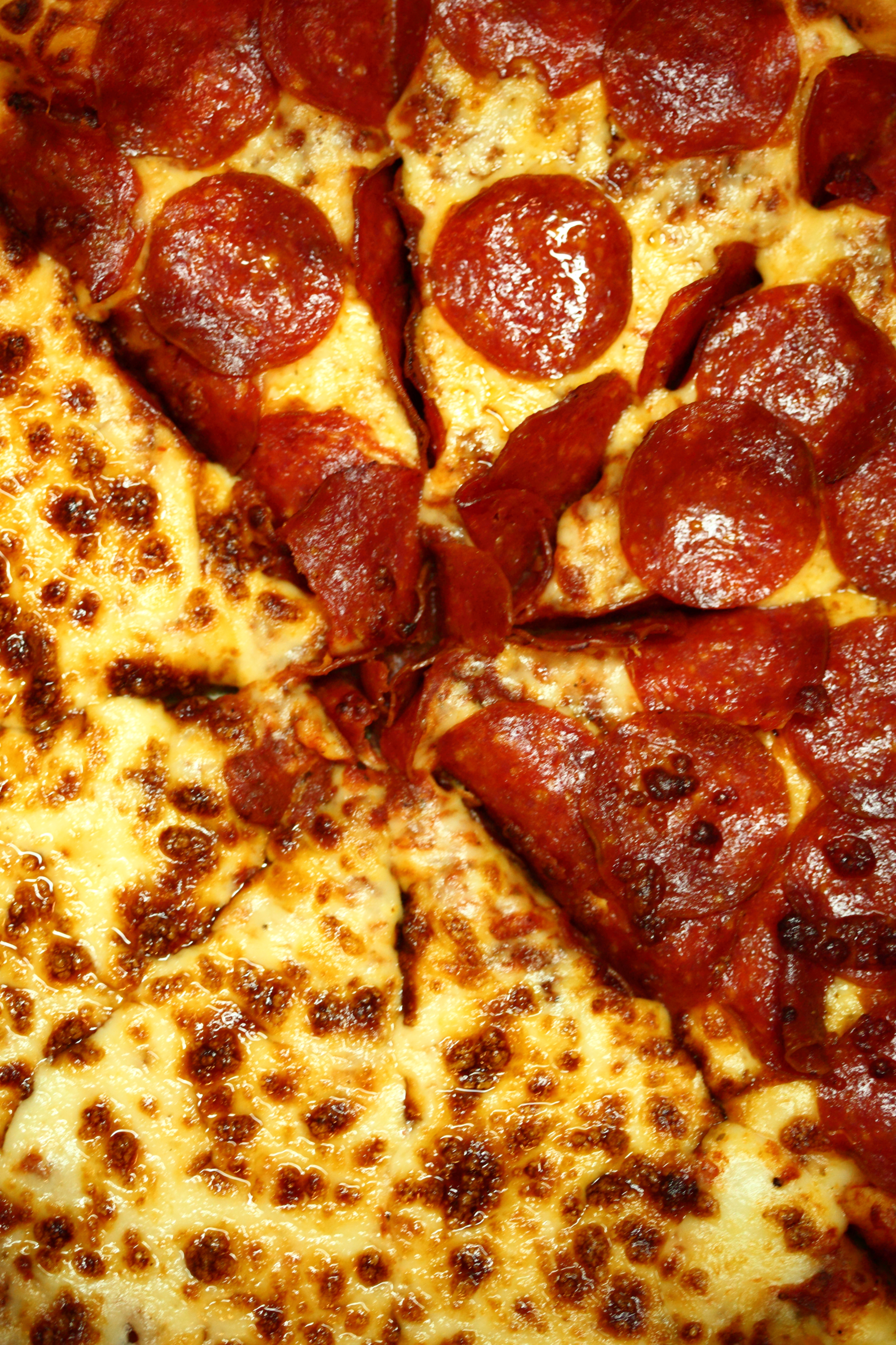 free for use My photos that have a creative commons license and are free for everyone to download, edit, alter and use as long as you give me, "D Sharon Pruitt" credit as the original owner of the photo. Have fun and enjoy